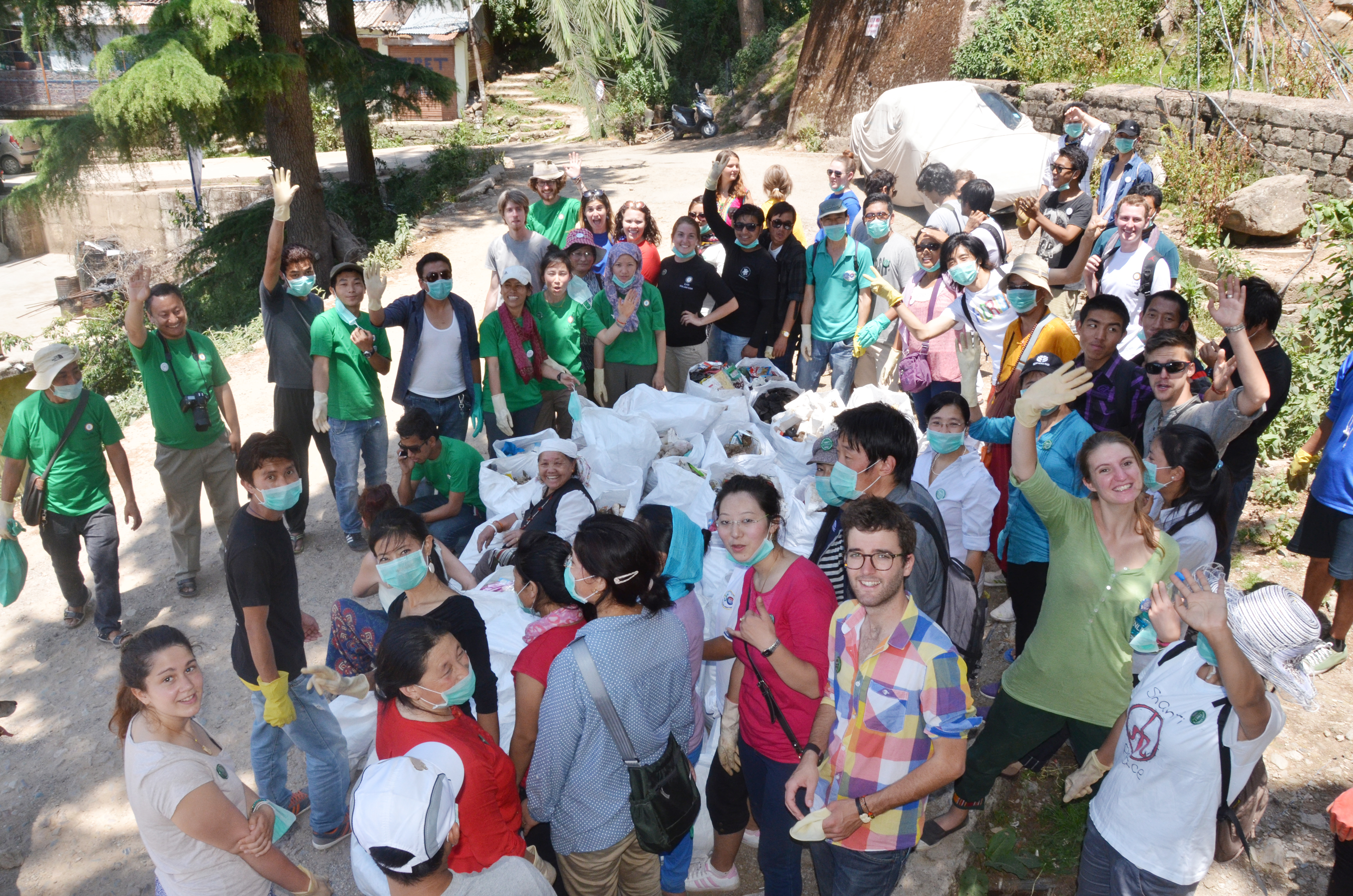 Lha Volunteers clean around Mcleod Ganj